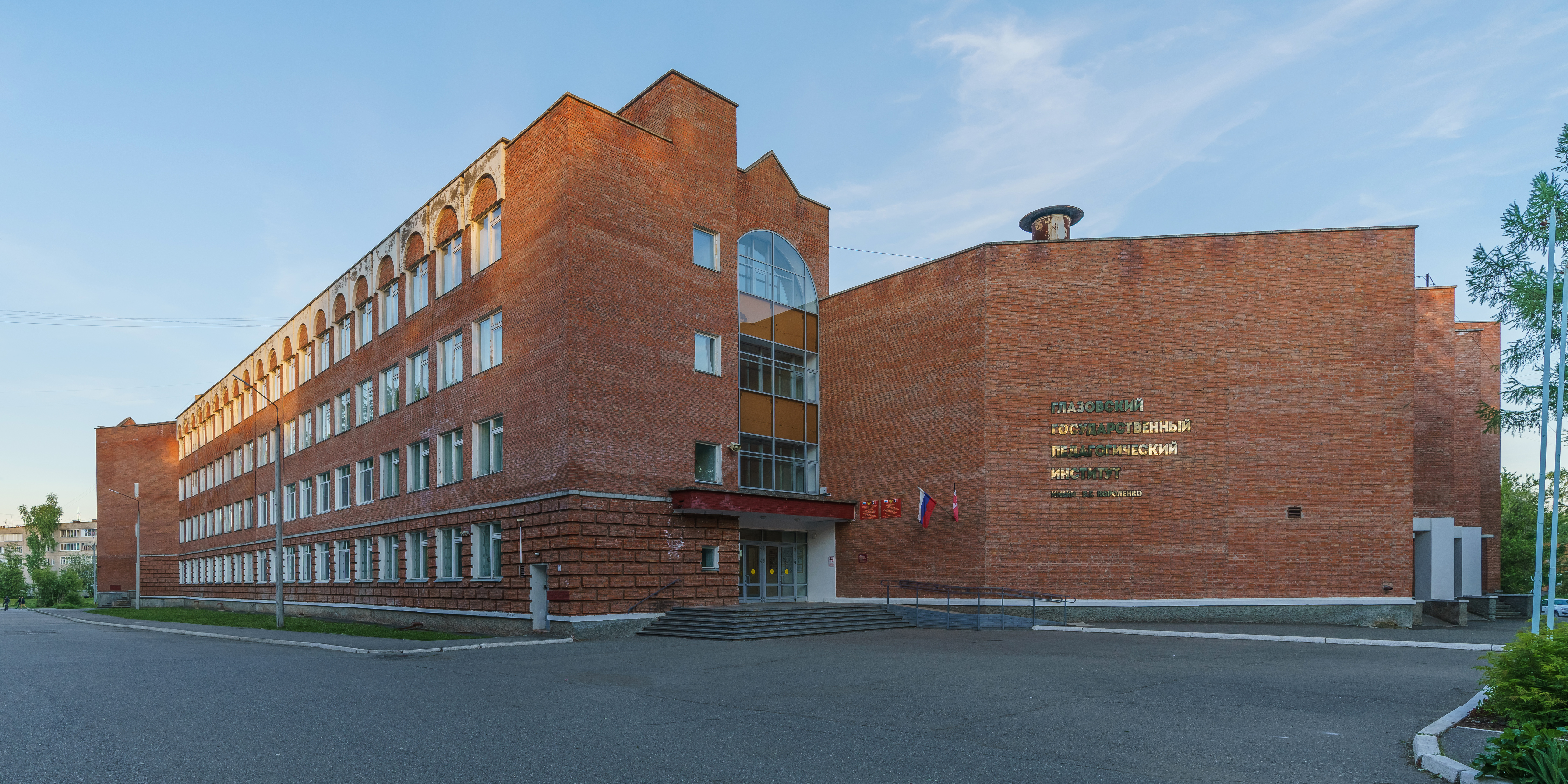 Main building of the Pedagogical Institute in Glazov, Udmurtia, Russia